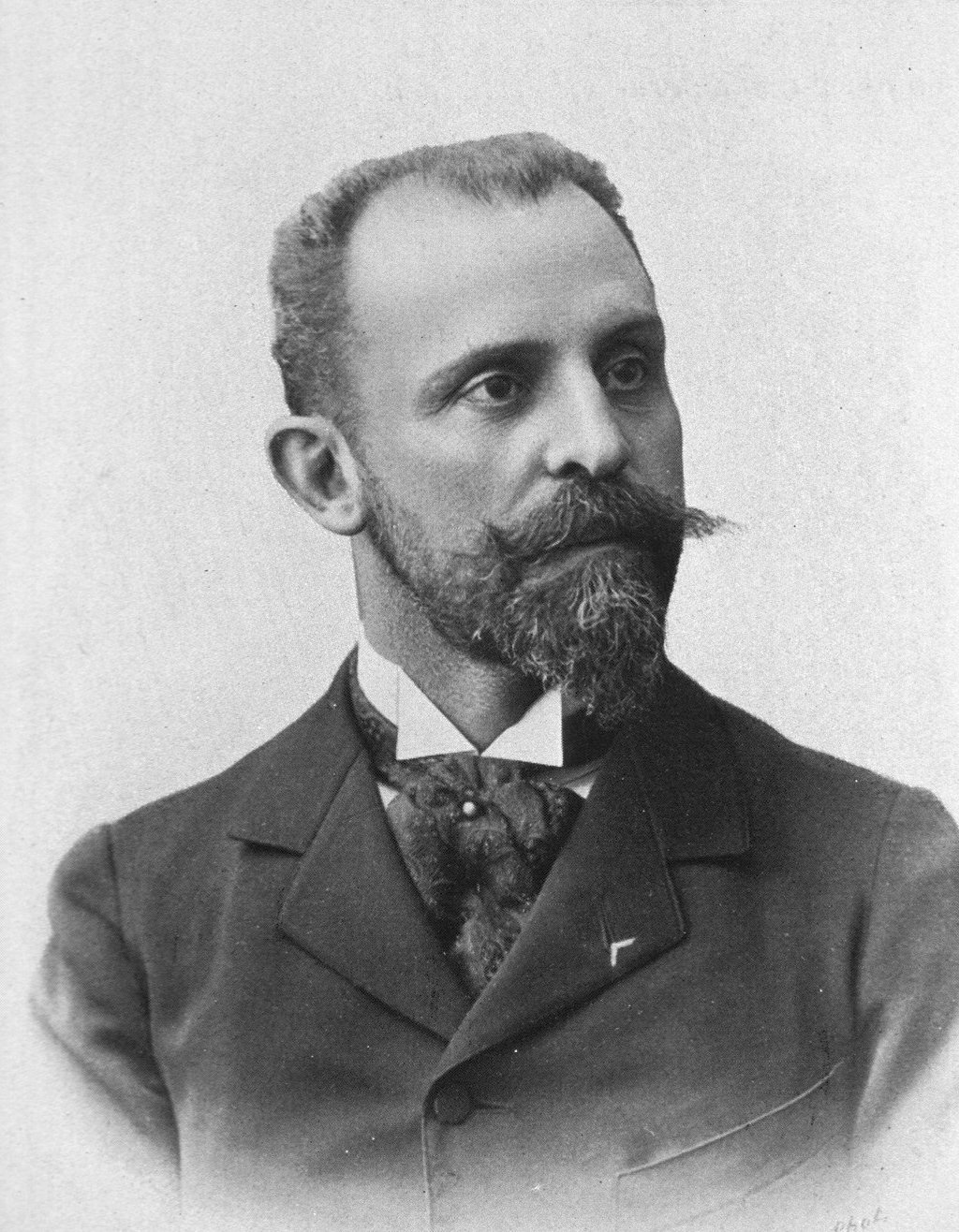 François Laurent André Castex (1851 – 1942)